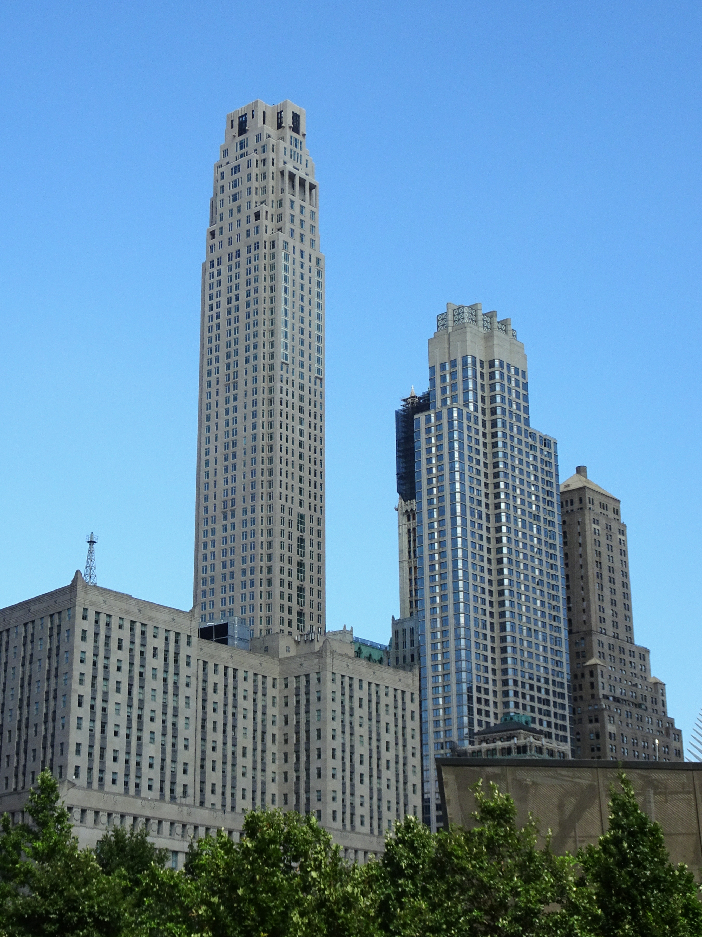 Looking east across West Street and WTC site, at 99 Church Street (left tower) on a mostly sunny afternoon.